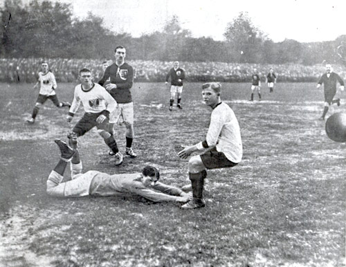 International Football Match between Austria and Hungary (1-4) on the WAC-Platz, Vienna, 27 April 1913 L.t.r.: Studnicka, Gyula Bíró, Károly Zsák (goalkeeper), Grundwald.